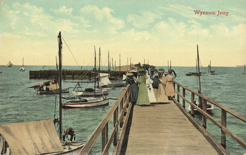 Ladies watching the boats at Wynnum Jetty, Brisbane, ca. 1907. Part of the Valentines Series of postcards.